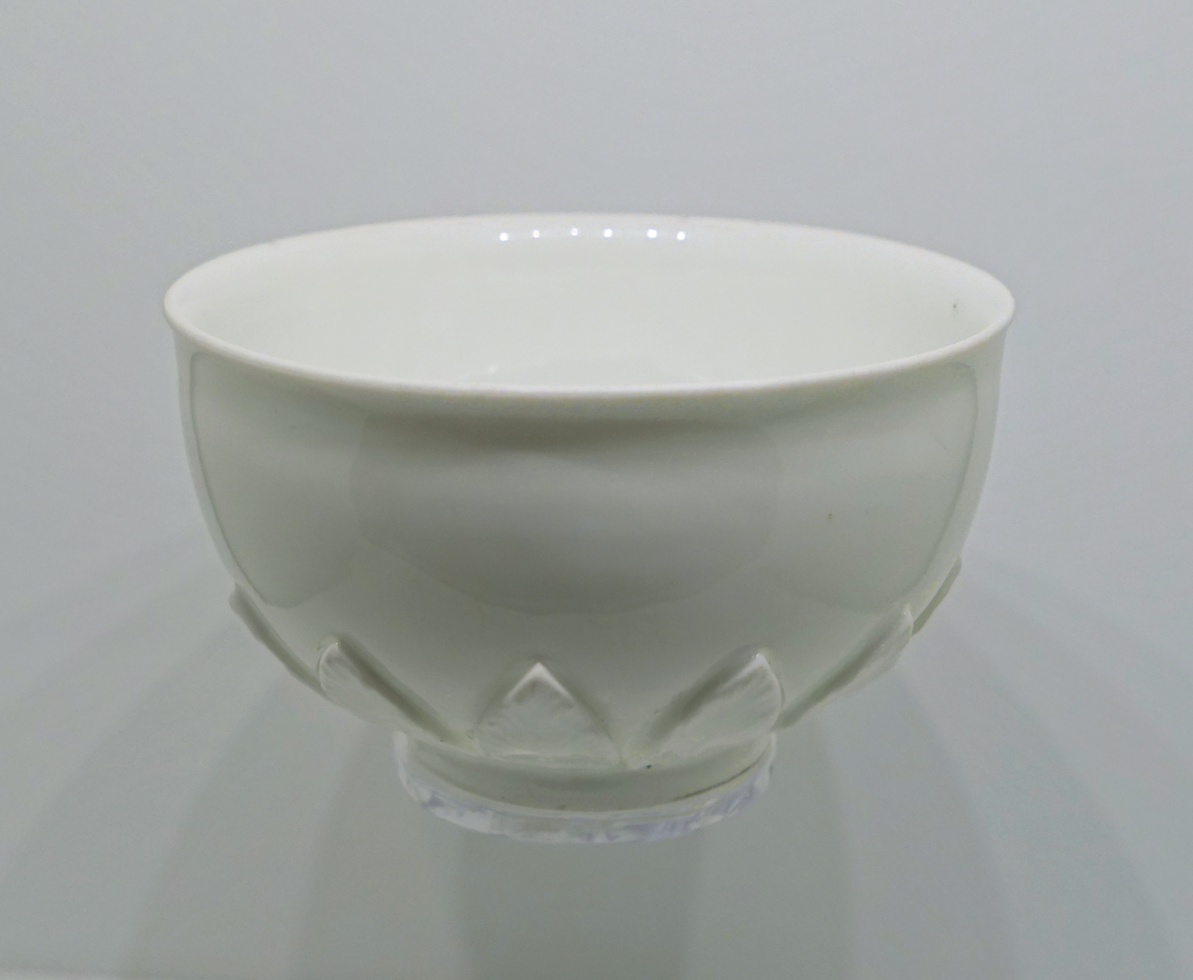 Exhibit in the Montreal Museum of Fine Arts - Montreal, Quebec, Canada.